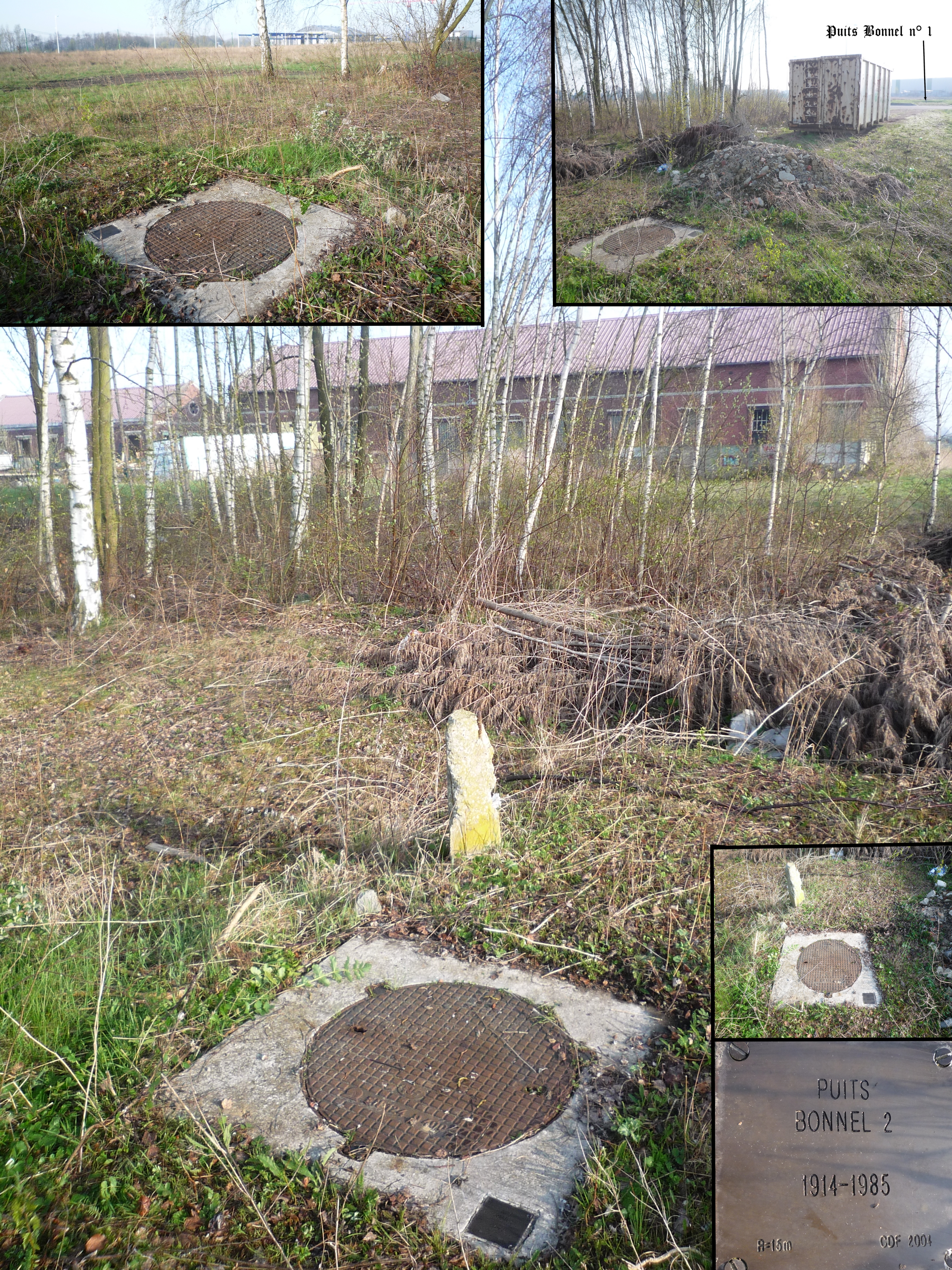 Pit Bonnel #2 at Lallaing, France.